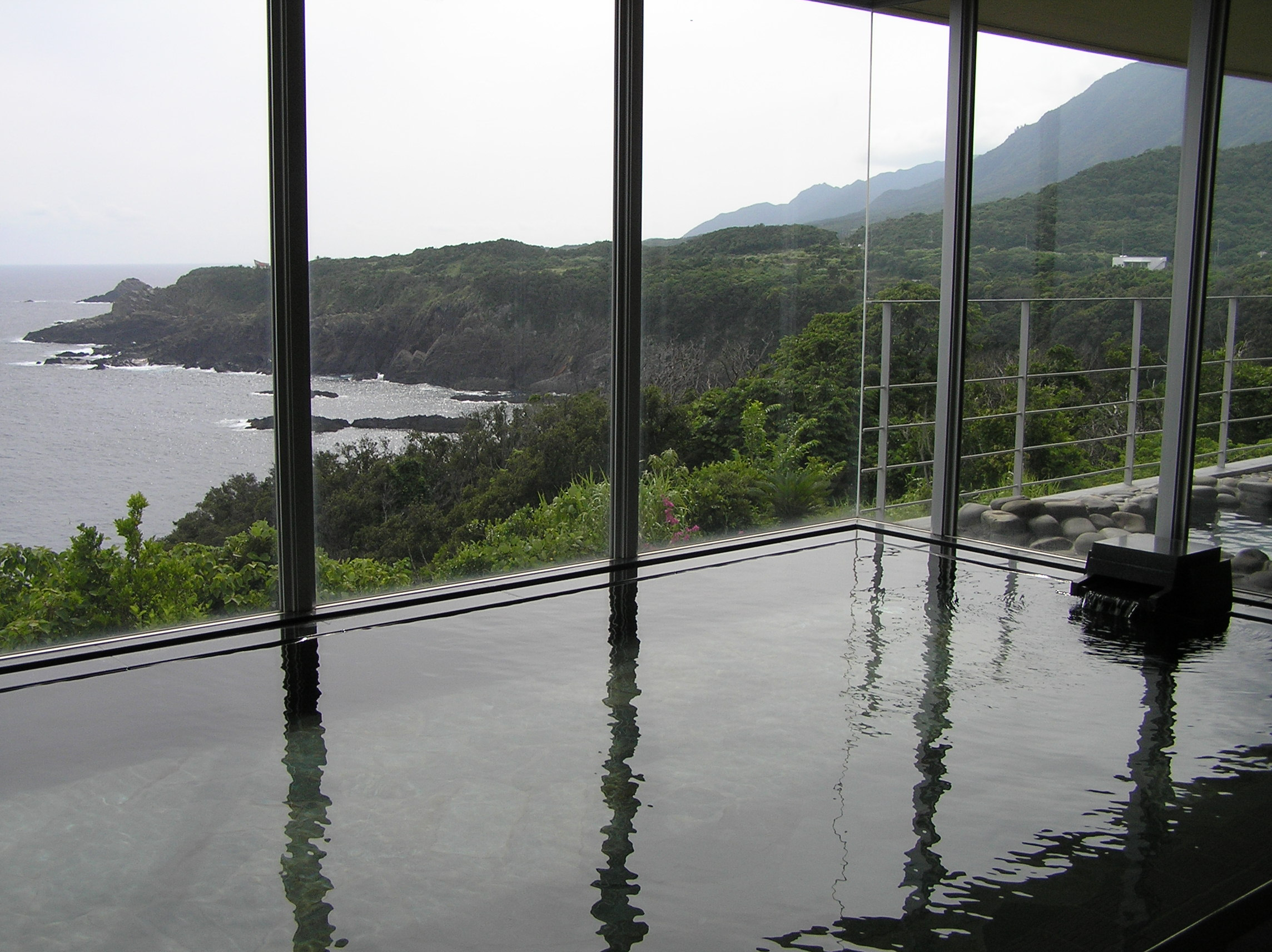 The hot spring bath of JR Hotel in Yakushima, Japan.